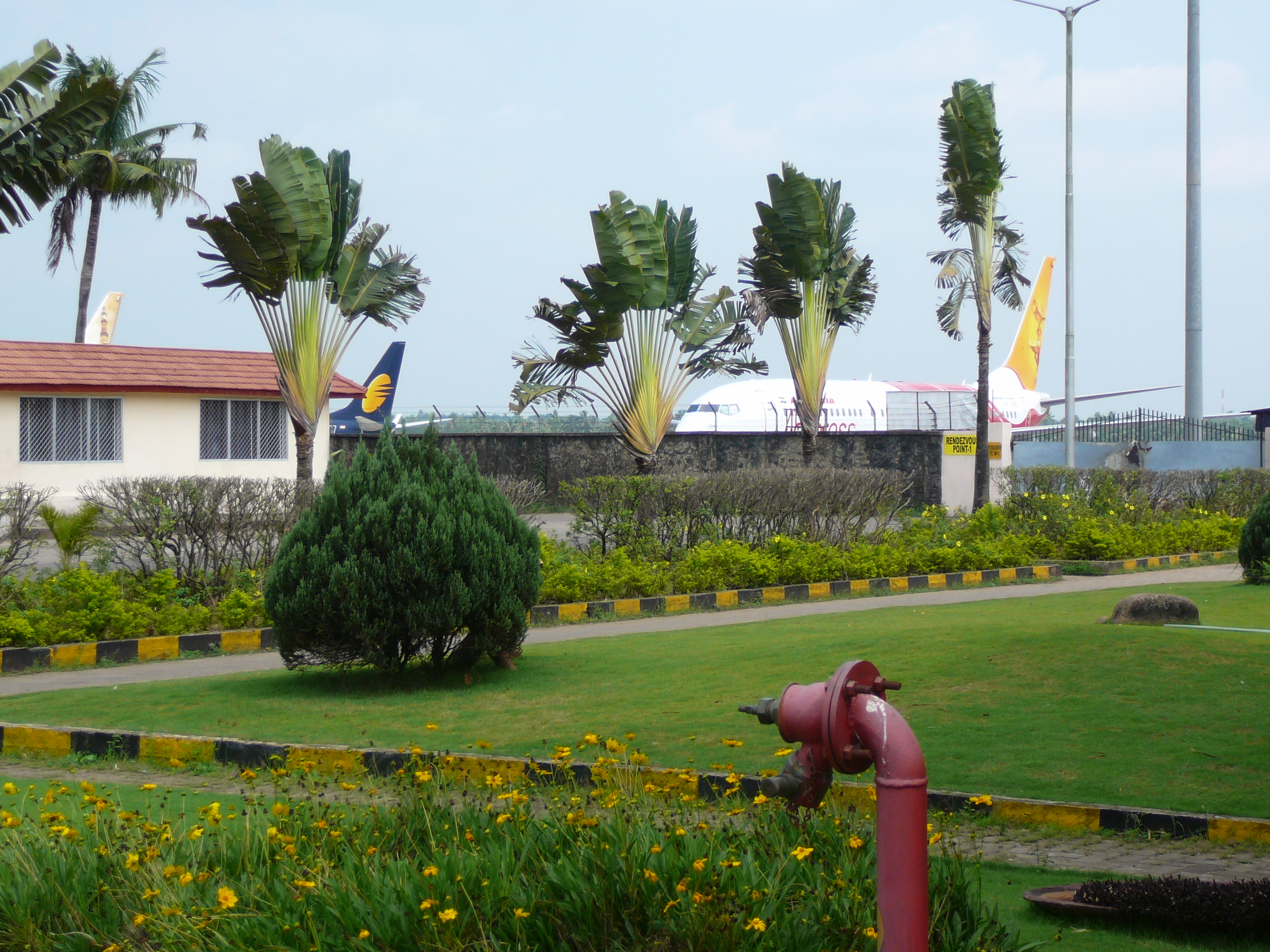 Airplanes at CIAL